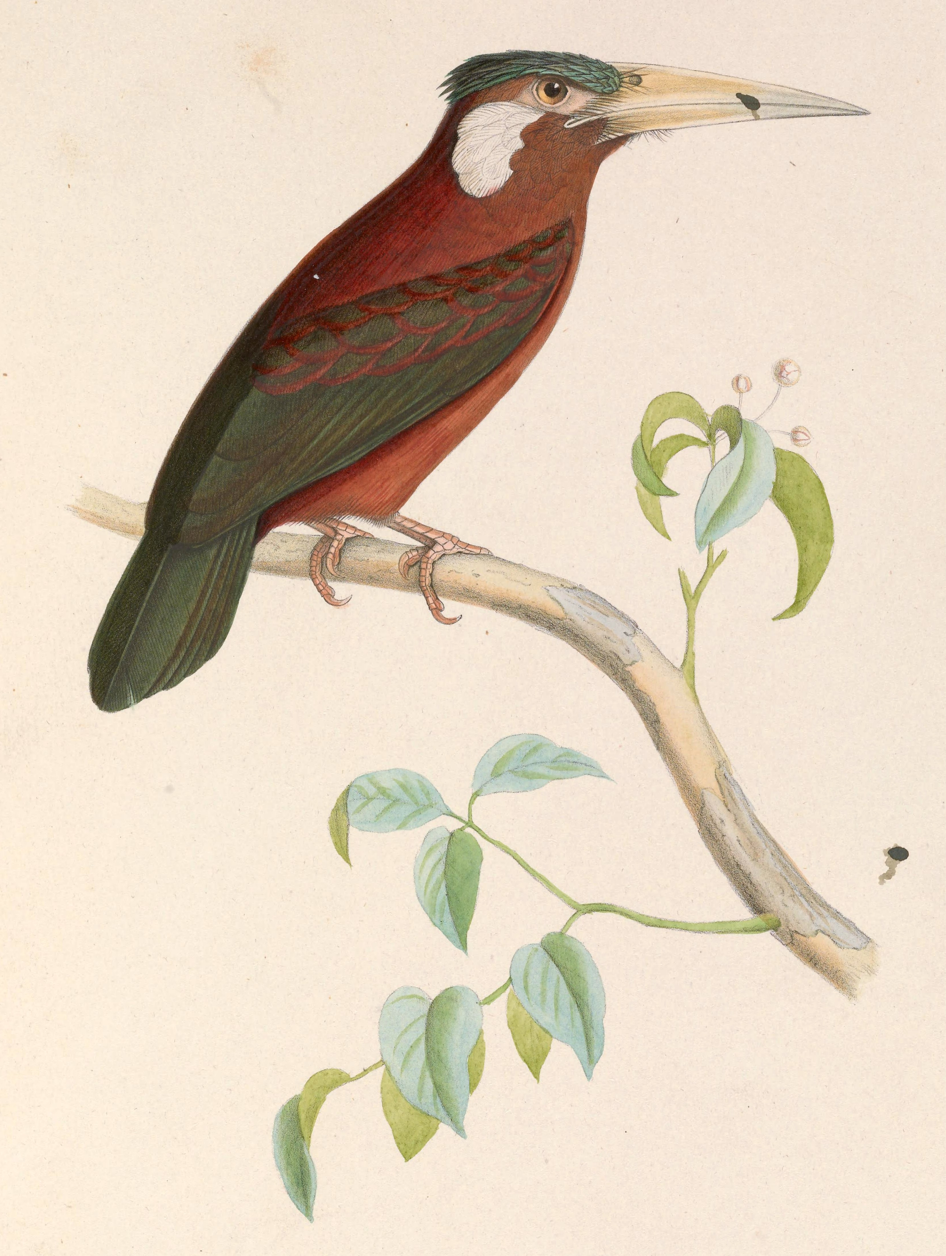 Jacamaralcyonides leucotis = Galbalcyrhynchus leucotis (White-eared Jacamar)